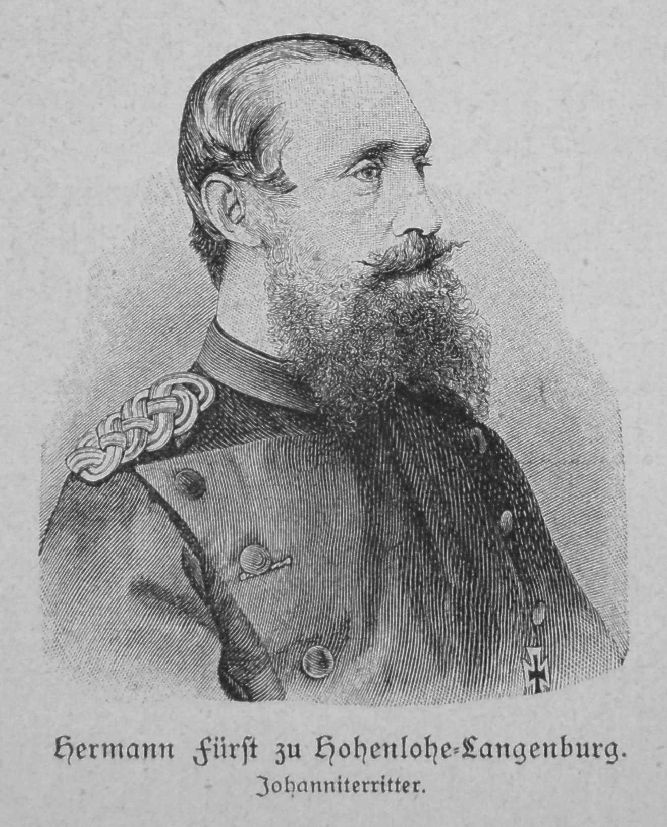 Hermann sovereign zu Hohenlohe-Langenburg (knights hospitallers)